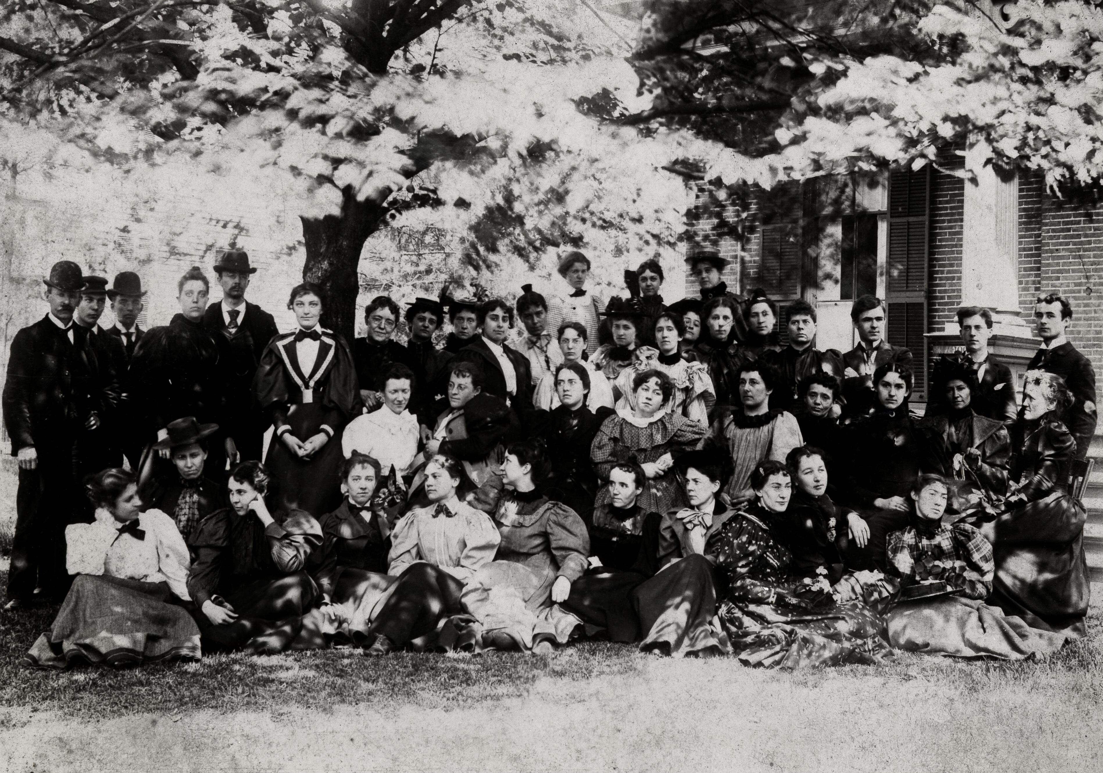 Faculty and students of the Cleveland School of Art in the Old Kelly homestead on Wilson Avenue. Among those pictured are J.H. Donahey, Grace Walsh, May Ames, Georgia Leighton Norton, and Frederick Carl Gottwald. Medium: Black and white photographic print Dimensions: 8 in x 10 in Persistent URL: Repository: Archives of American Art Native nameArchives of American ArtParent institutionSmithsonian InstitutionLocationWashington, D.C.Coordinates38° 53′ 52.44″ N, 77° 01′ 21.72″ W Established1954Web page control : Q2860568 VIAF: 151134814 ISNI: 0000 0001 2185 0758 LCCN: n79065944 NLA: 35007823 GND: 1023549-8 WorldCat institution QS:P195,Q2860568 Accession number: aaa_miscphot_6717